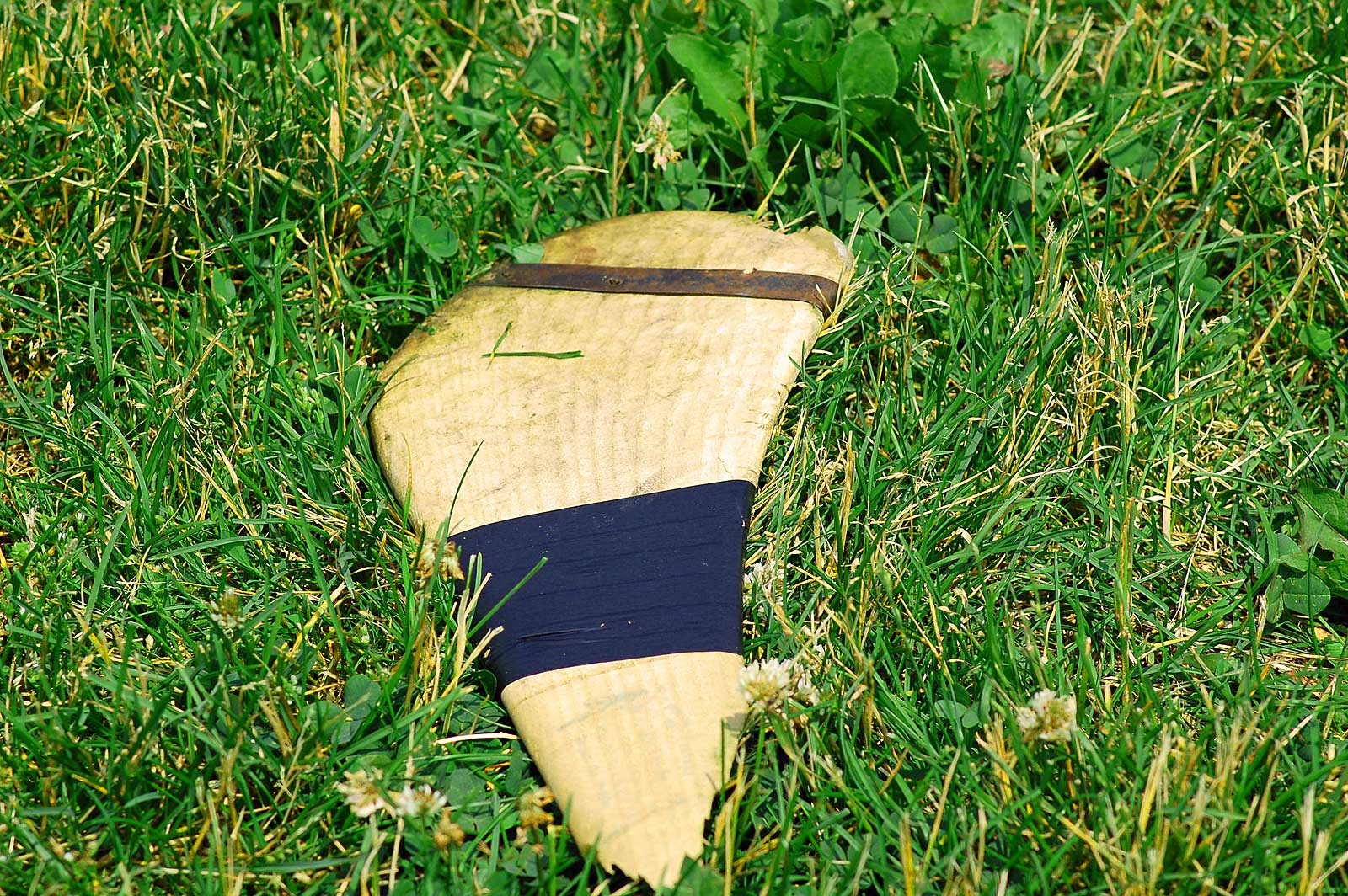 Cracked and splintered hurleys littered the sidelines.